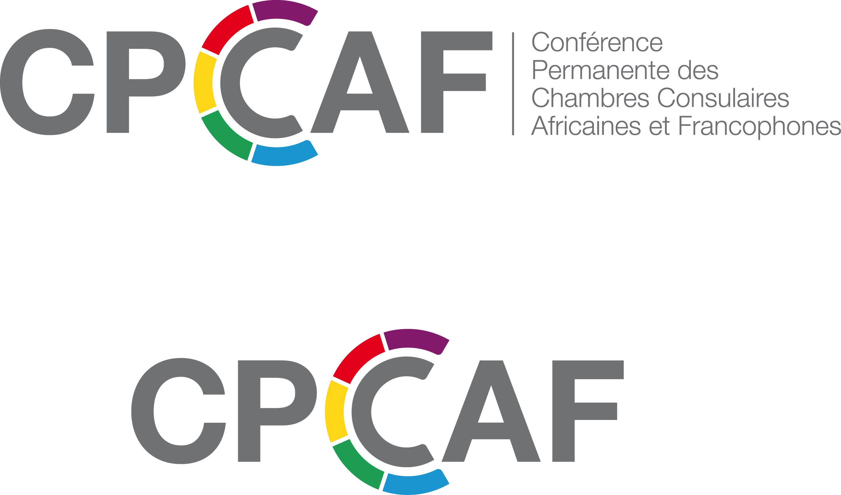 CPCCAF logo